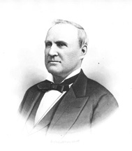 Portrait of Senator Augustus Merrimon of North Carolina